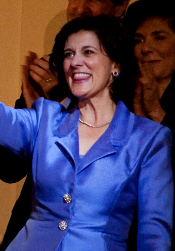 Vicki Kennedy waves to the audience during "Some Enchanted Evening: A Musical Birthday Salute to Senator Edward M. Kennedy" at the John F. Kennedy Center for the Performing Arts in Washington, D.C., March 8, 2009.